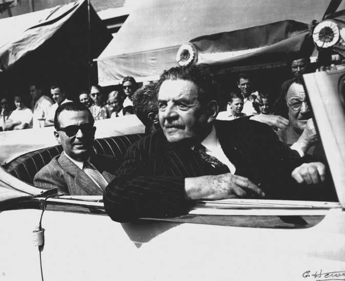 Visit of the French president of the National Assembly to Le Pont-de-Beauvoisin (Isère, France) to commemorate the 600th anniversary of the Dapuhiné to France